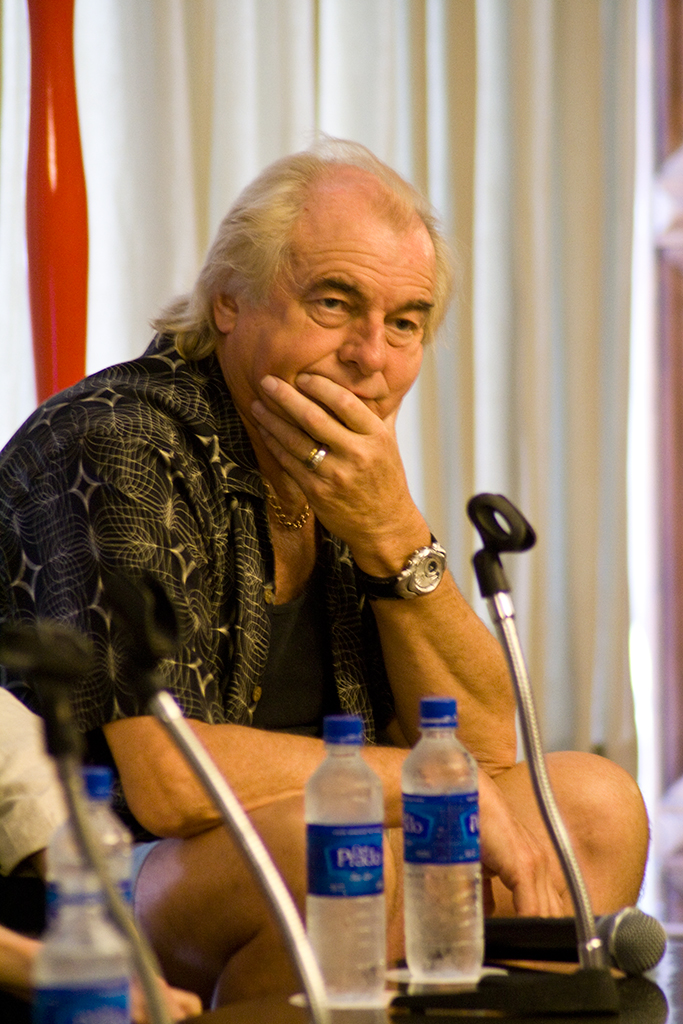 Press conference of Yes rock band: Alan White